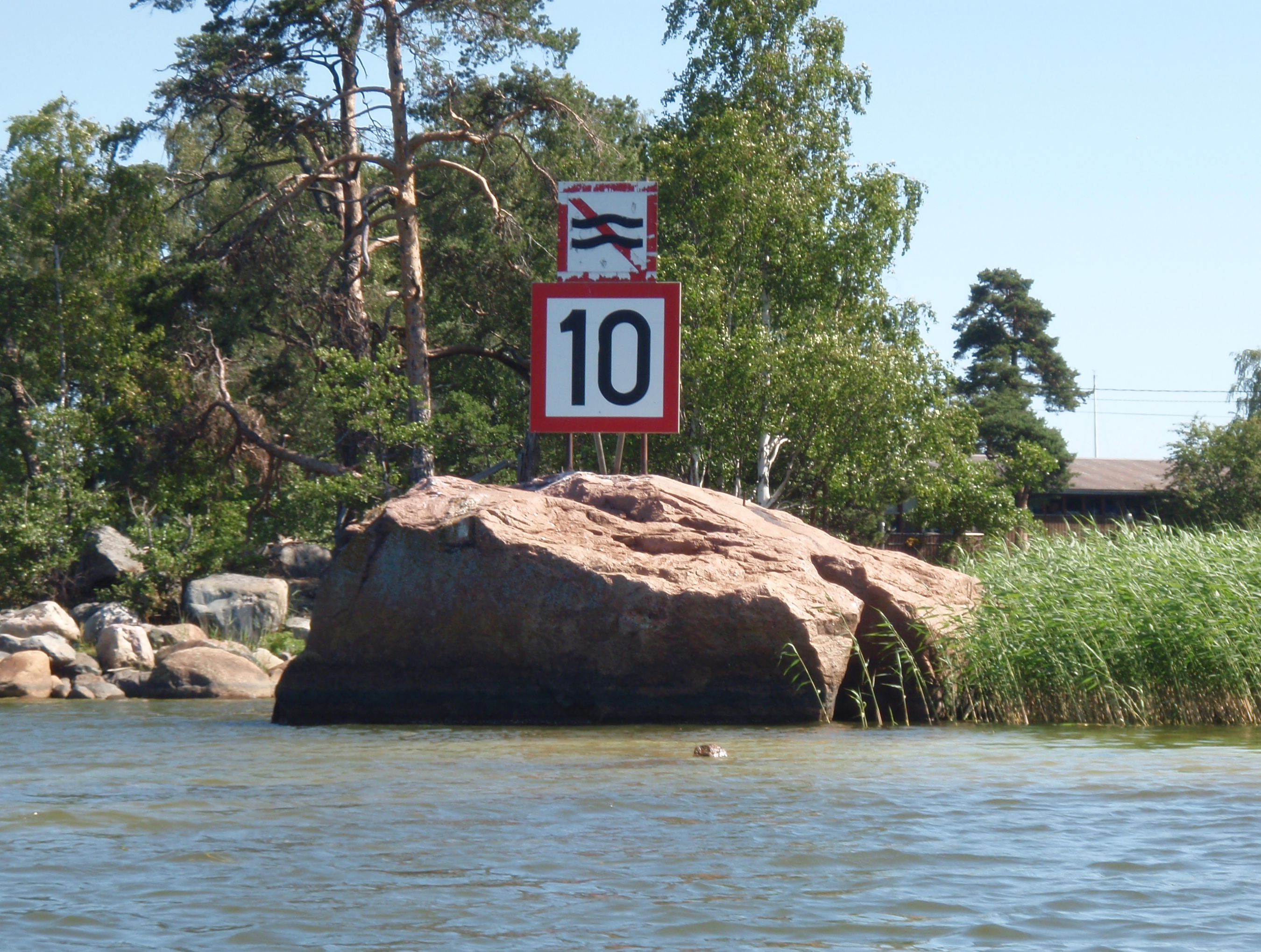 Pyykivi, glacial erratic in Laajasalo, Helsinki